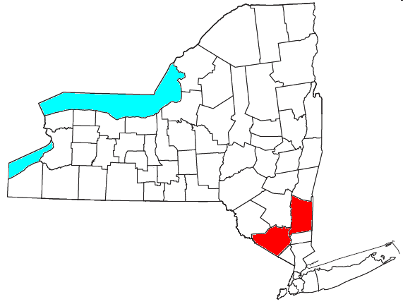 Locator map of the Poughkeepsie-Newburgh-Middletown Metropolitan Statistical Area in the southeastern part of the U.S. state of New York.